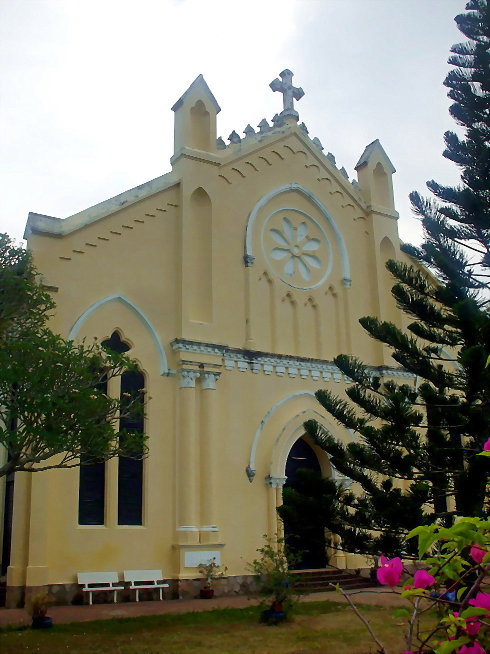 The ancient Church of the Phan-xi-she in Isle, New Market, An Giang, Vietnam.